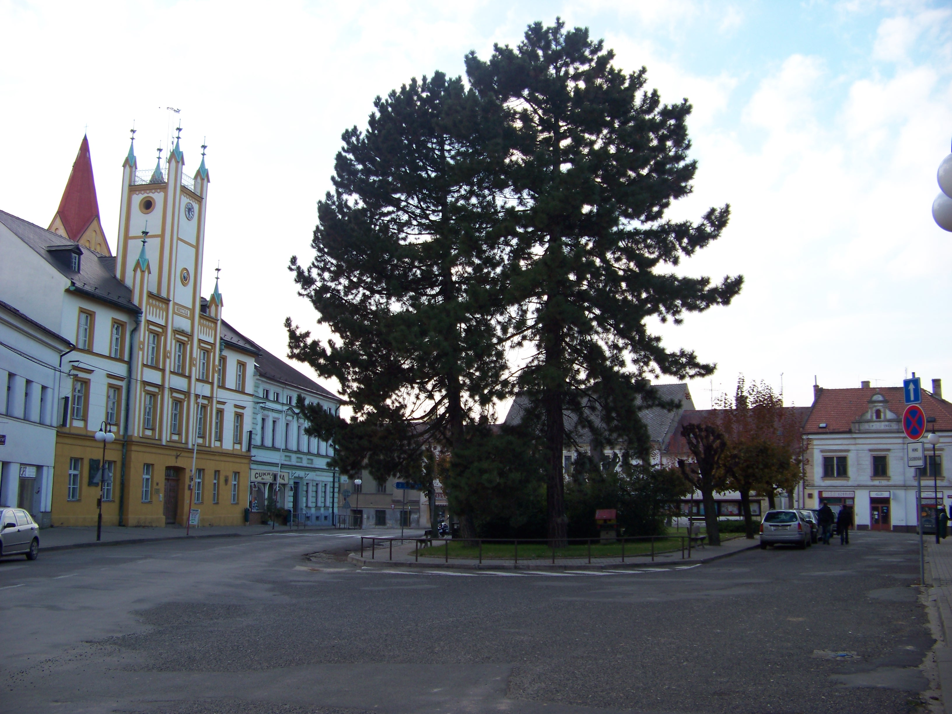 Mšeno, Mělník District, Central Bohemian Region, the Czech Republic. Peace Square, the town hall.